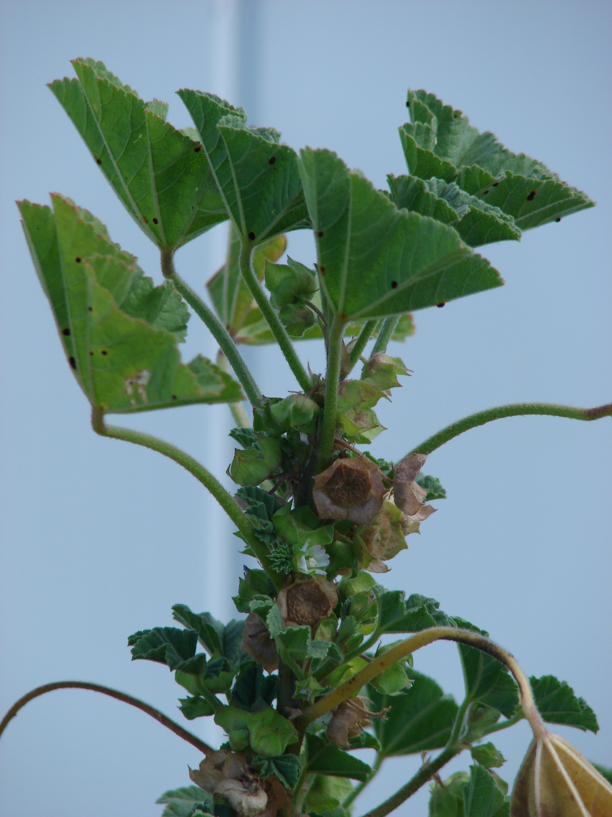 Malva parviflora (leaves and seedheads). Location: Maui, Pukalani